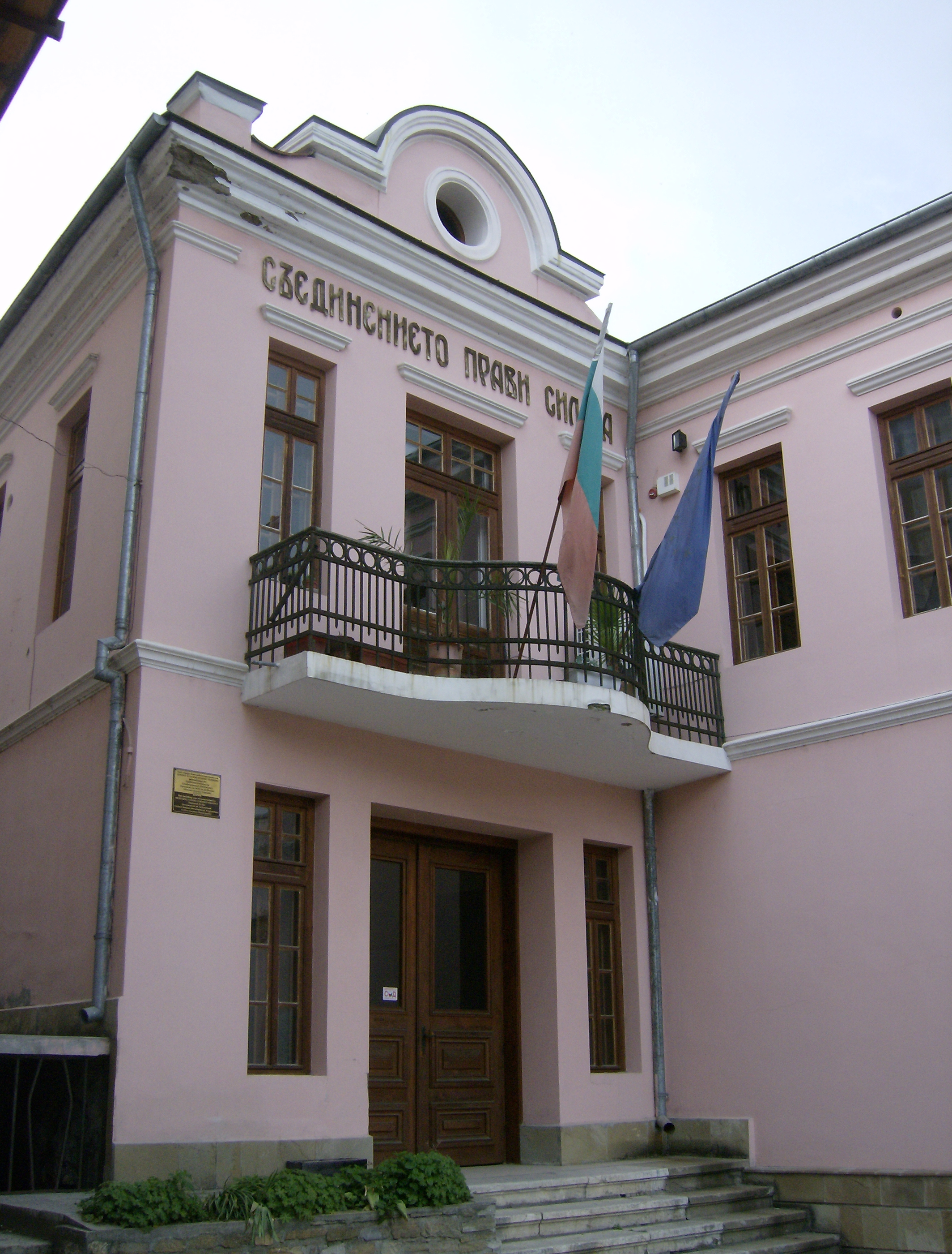 Chitalishte Nadezda, Veliko Turnovo